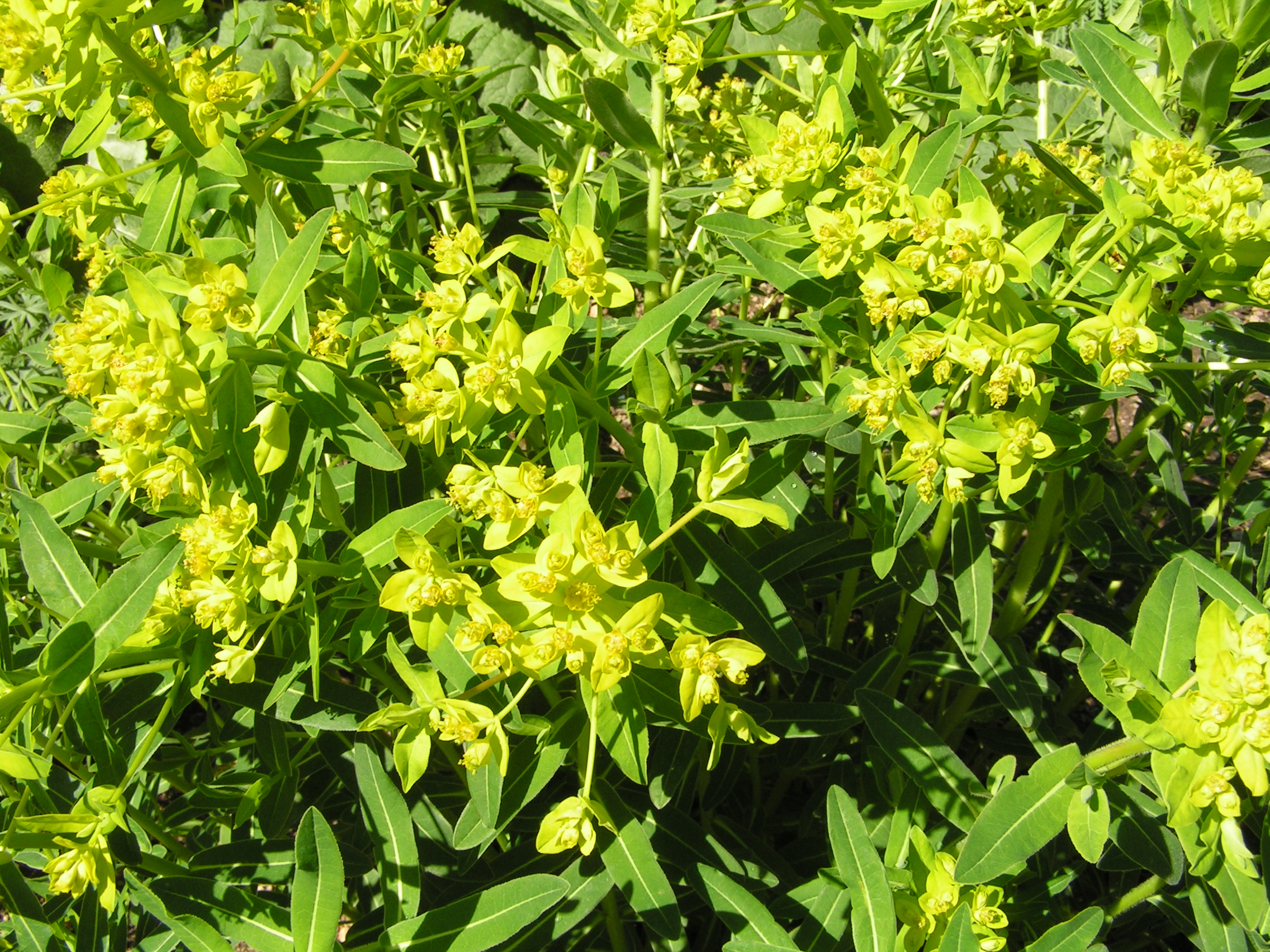 Euphorbia salicifolia in the Botanical Garden of the University of Vienna